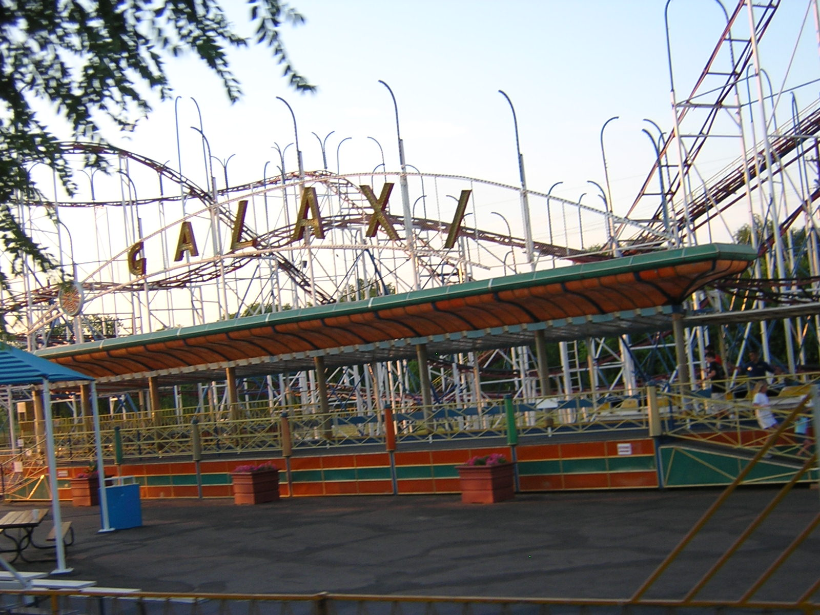 Galaxi coaster at Joyland Amusement Park in Lubbock, Texas